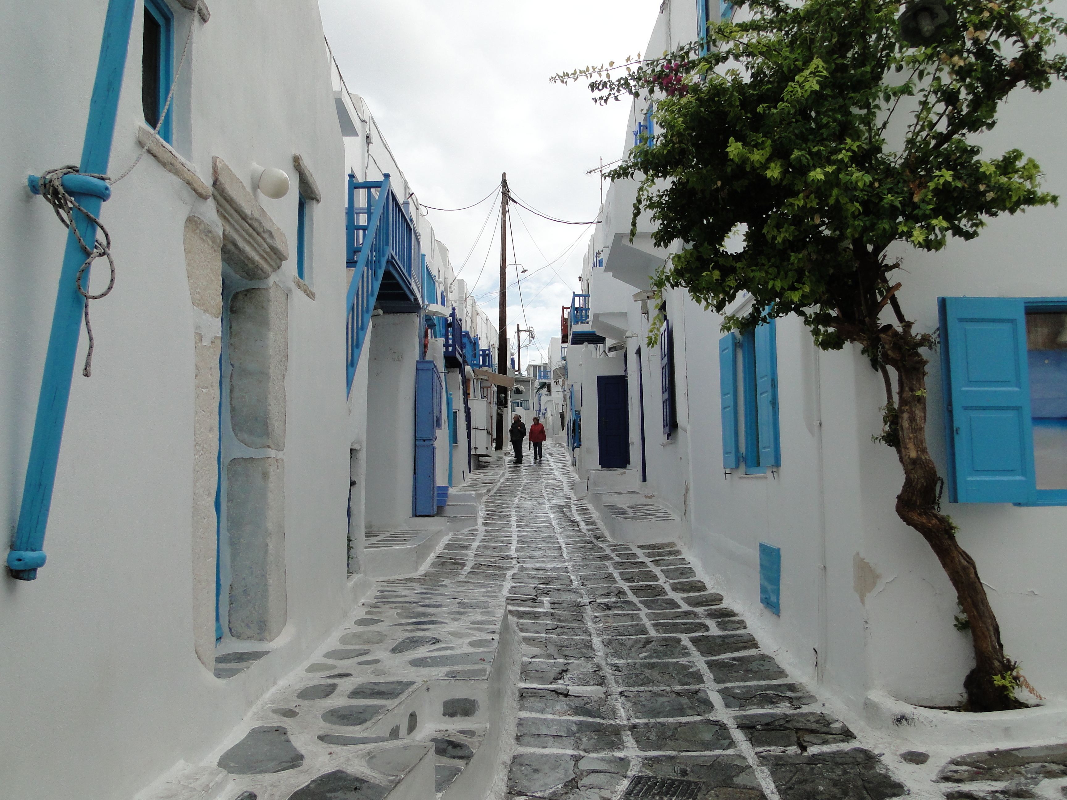 A street in Mykonos